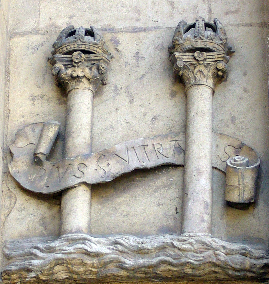 Emblems of Charles V of Spain in the Town Hall of Seville